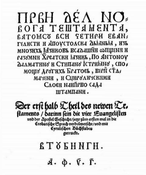 Croatian Protestant Bible 1563